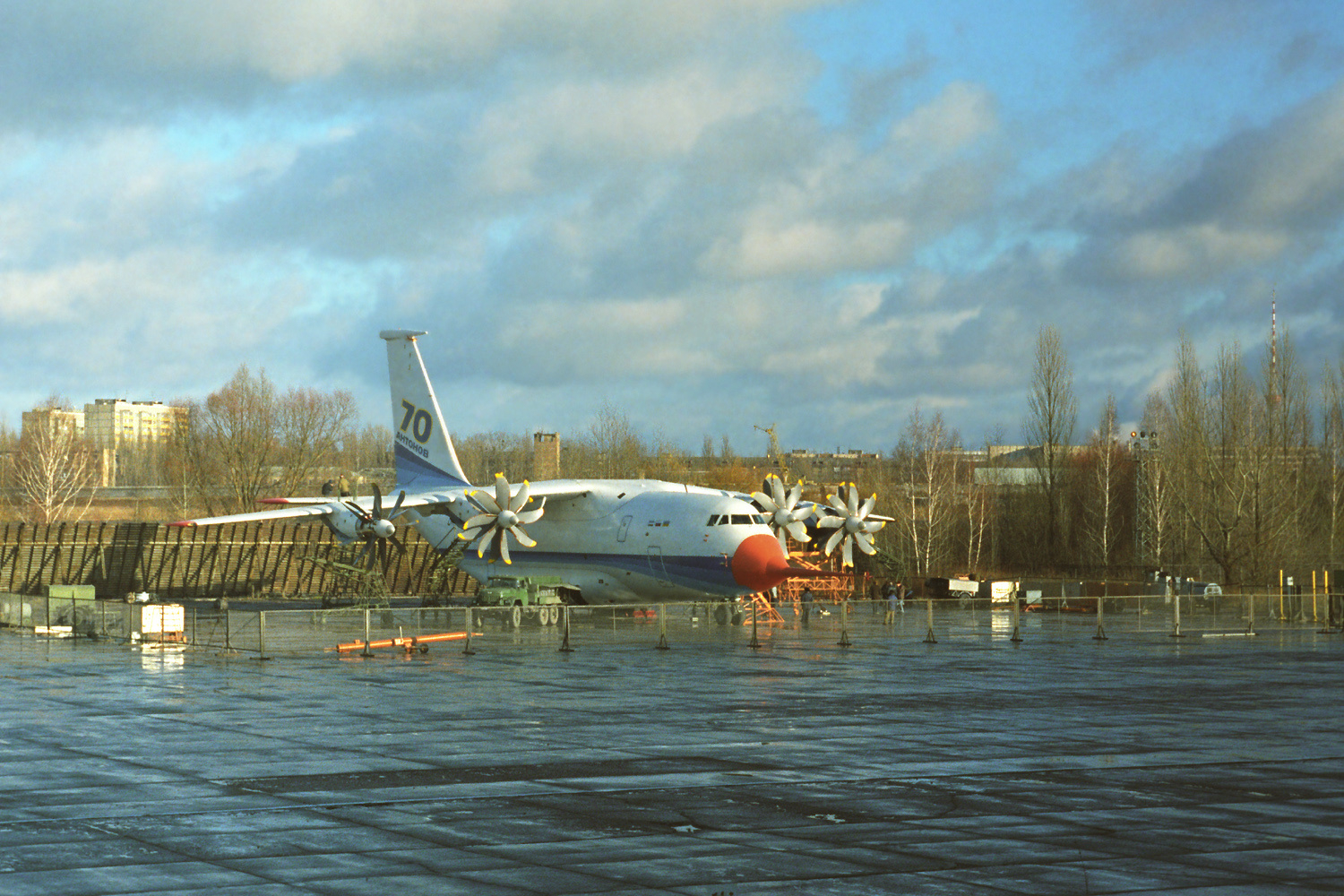 First prototype of Antonov An-70 transport aircraft